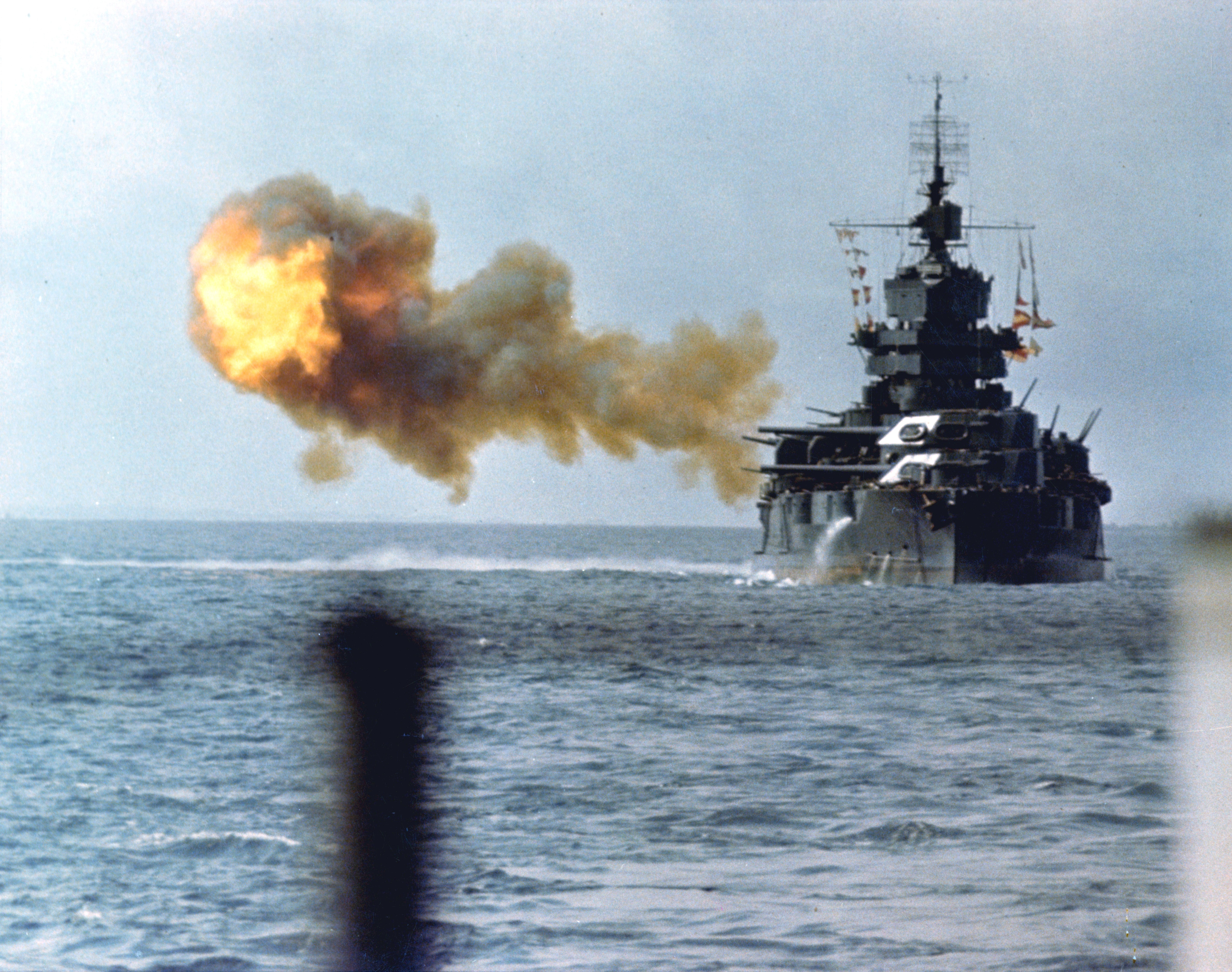 USS Idaho (BB-42), a New Mexico-class battleship shells Okinawa on 1 April 1945, easily distinguished by her tower foremast & 5”-38 Mk 30 single turrets (visible between the barrels of the forward main turrets). Idaho was the only battleship with this configuration.